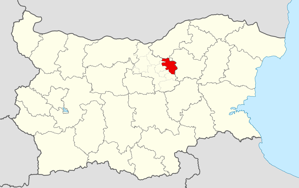 Location map of Strazhitsa Municipality within Bulgaria and Veliko Tarnovo Province. Equirectangular projection, N/S stretching 130 %. Geographic limits of the map: N: 44.4° N S: 41.1° N W: 22.1° E E: 28.9° E